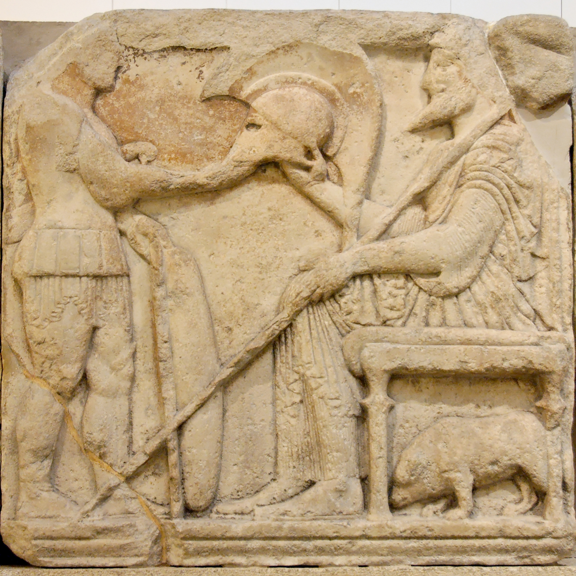 A young warrior wearing a corslet over a short tunic supports a shield with his left hand and receives (or hands over) a crested helmet from a seated bearded figure wearing tunic and cloak and supporting a long staff. A bear or dog stands beneath the throne. Central panel from the north side of Kybernis' tomb, acropolis of Xanthos in Lycia, ca. 480 BC.